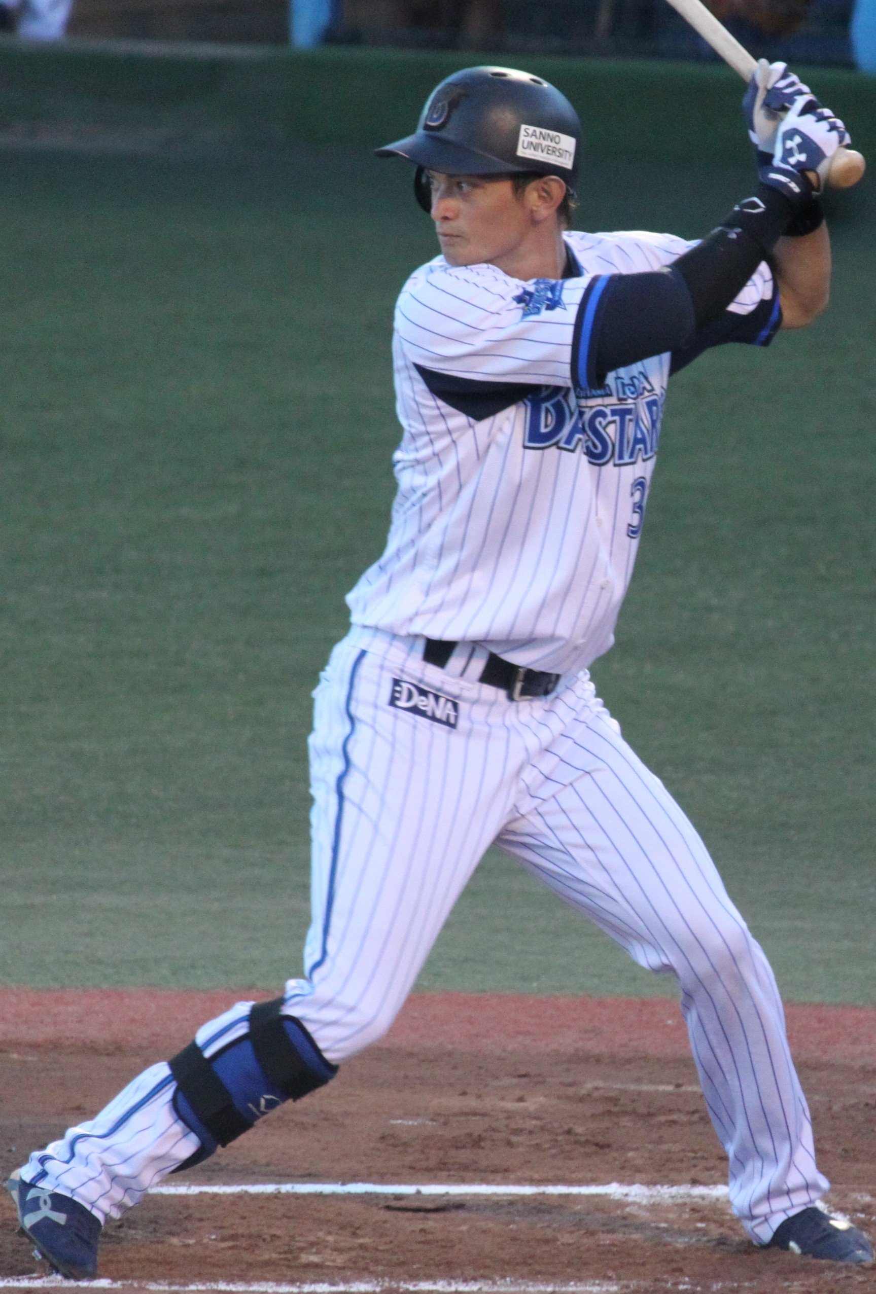 Tomo Otosaka, outfielder of the Yokohama DeNA BayStars, at Yokosuka Stadium.